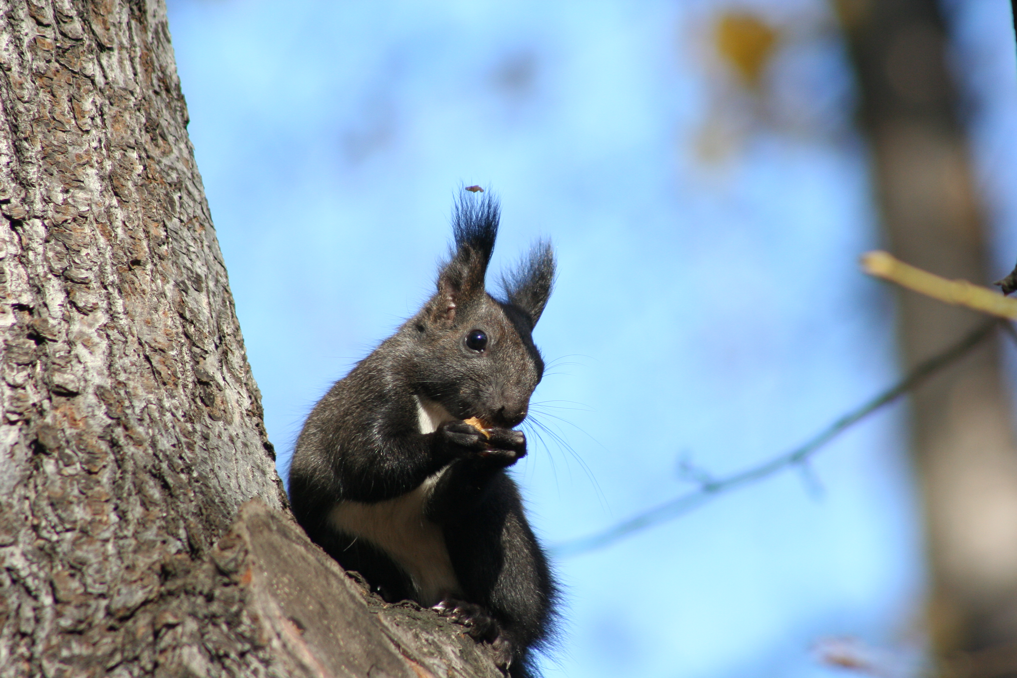 Sciurus vulgaris (Eurasian red squirrel) - photograph taken in Cieplice Spa near Jelenia Góra. Late October 2005.